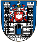 Coat-of-arms of the town of Bor, Czechia